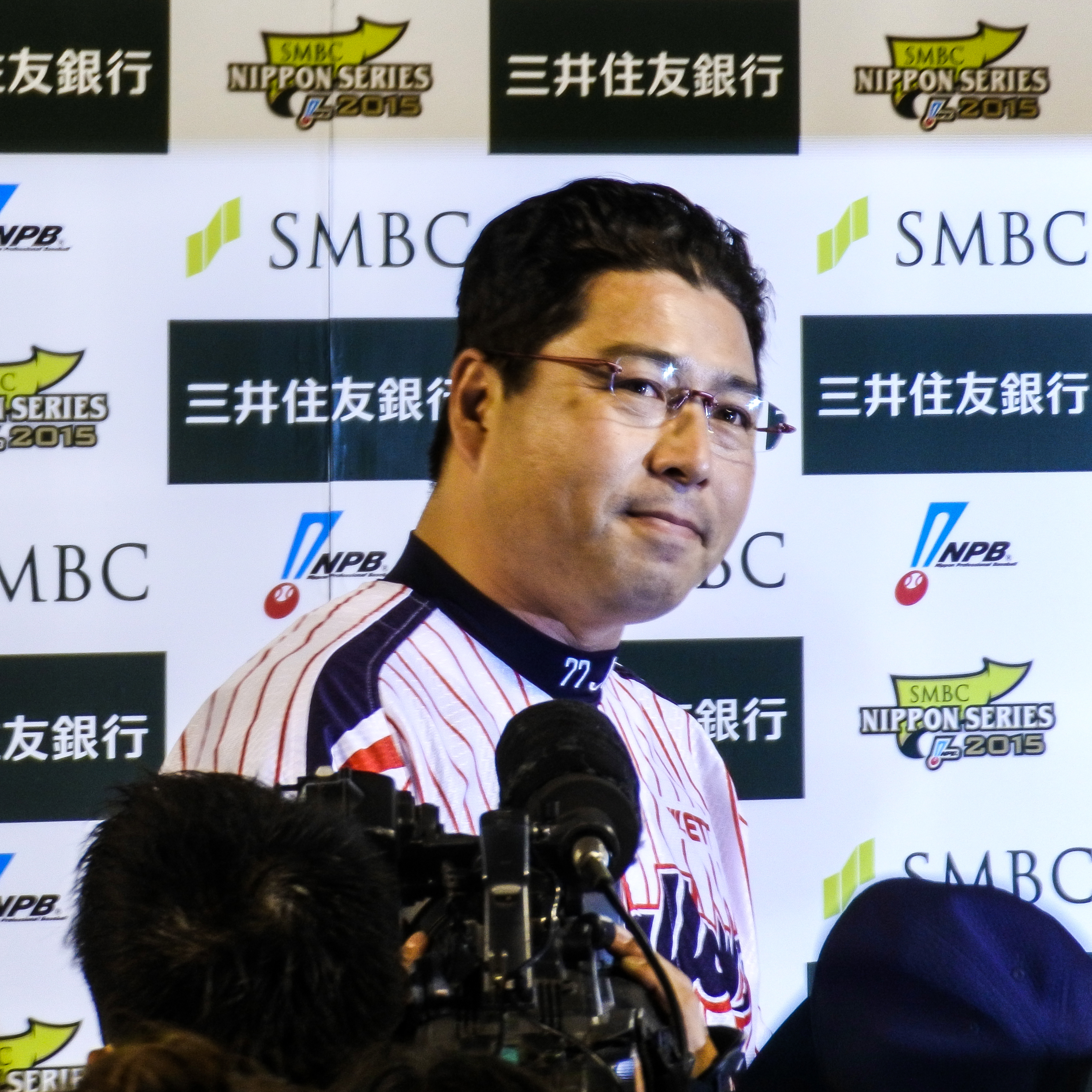 Oct 27, 2015 at 22:03, Tokyo 神宮